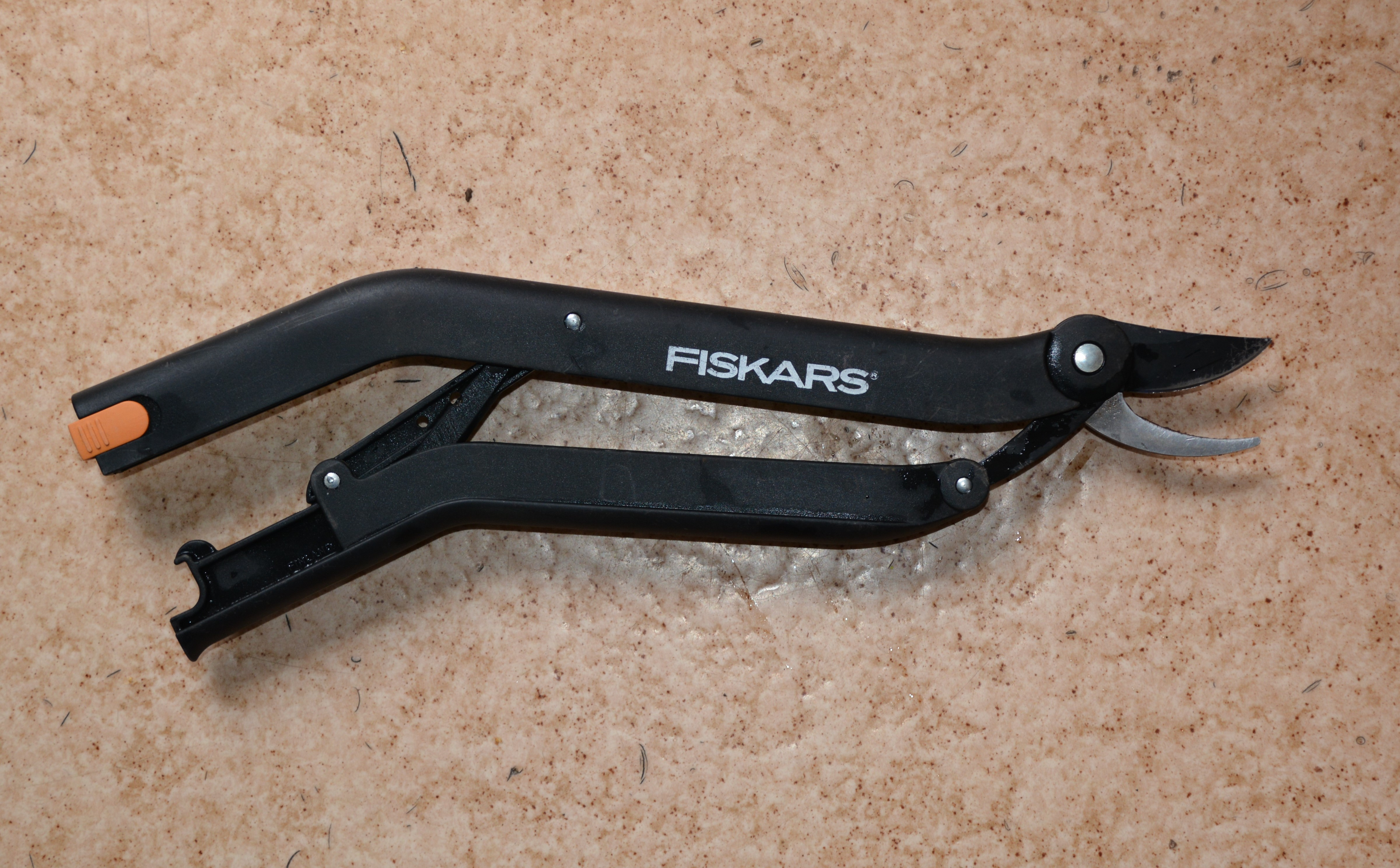 Fiskars Universal convenience cutter, designed by Olavi Lindén and Markus Paloheimo 2004